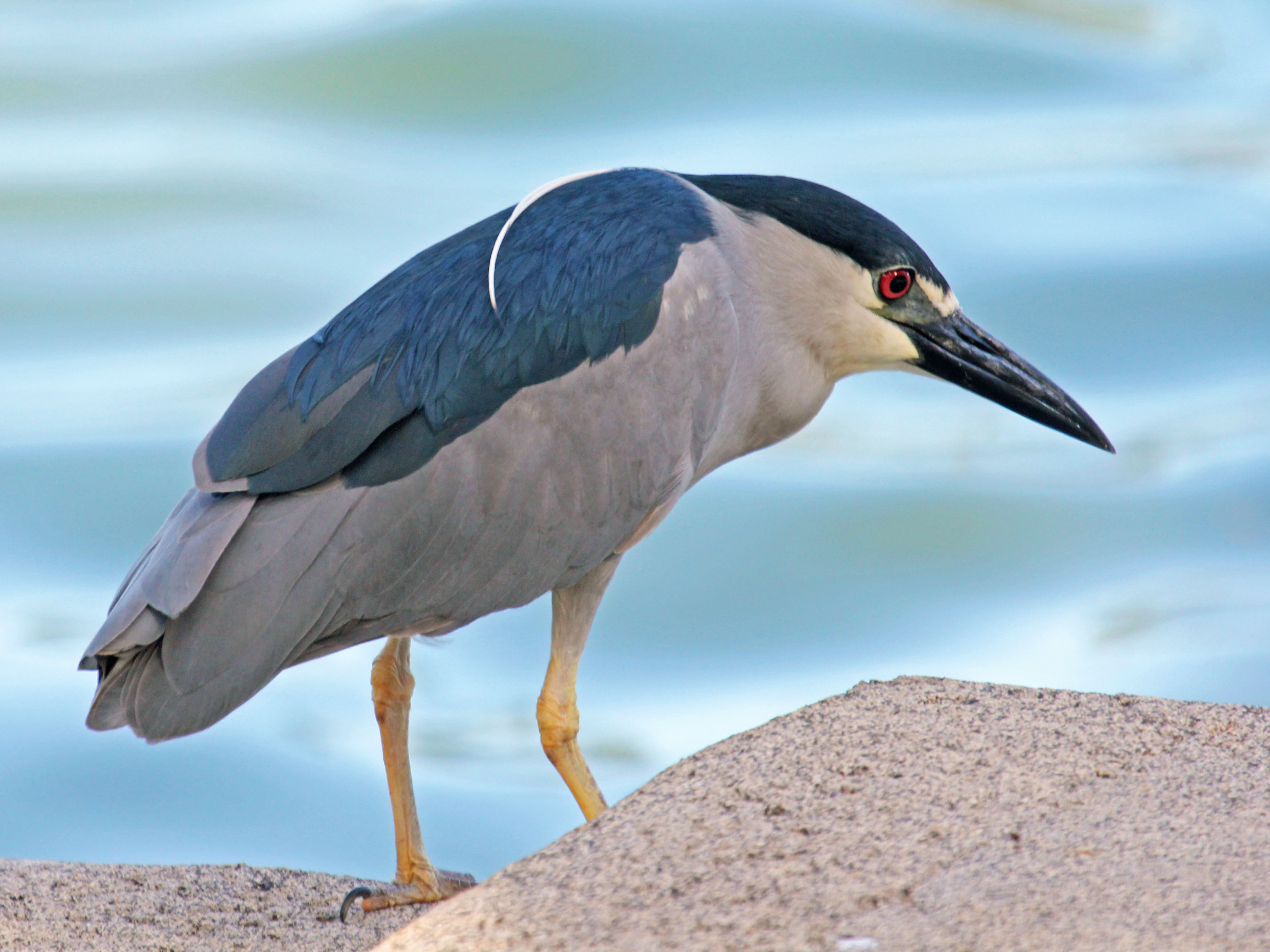 Black-crowned Night Heron (Nycticorax nycticorax) - Kauai, Hawaii